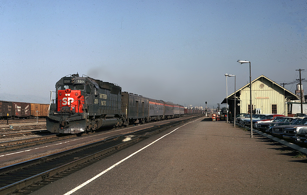 The northbound Coast Daylight at Santa Clara station in April 1971